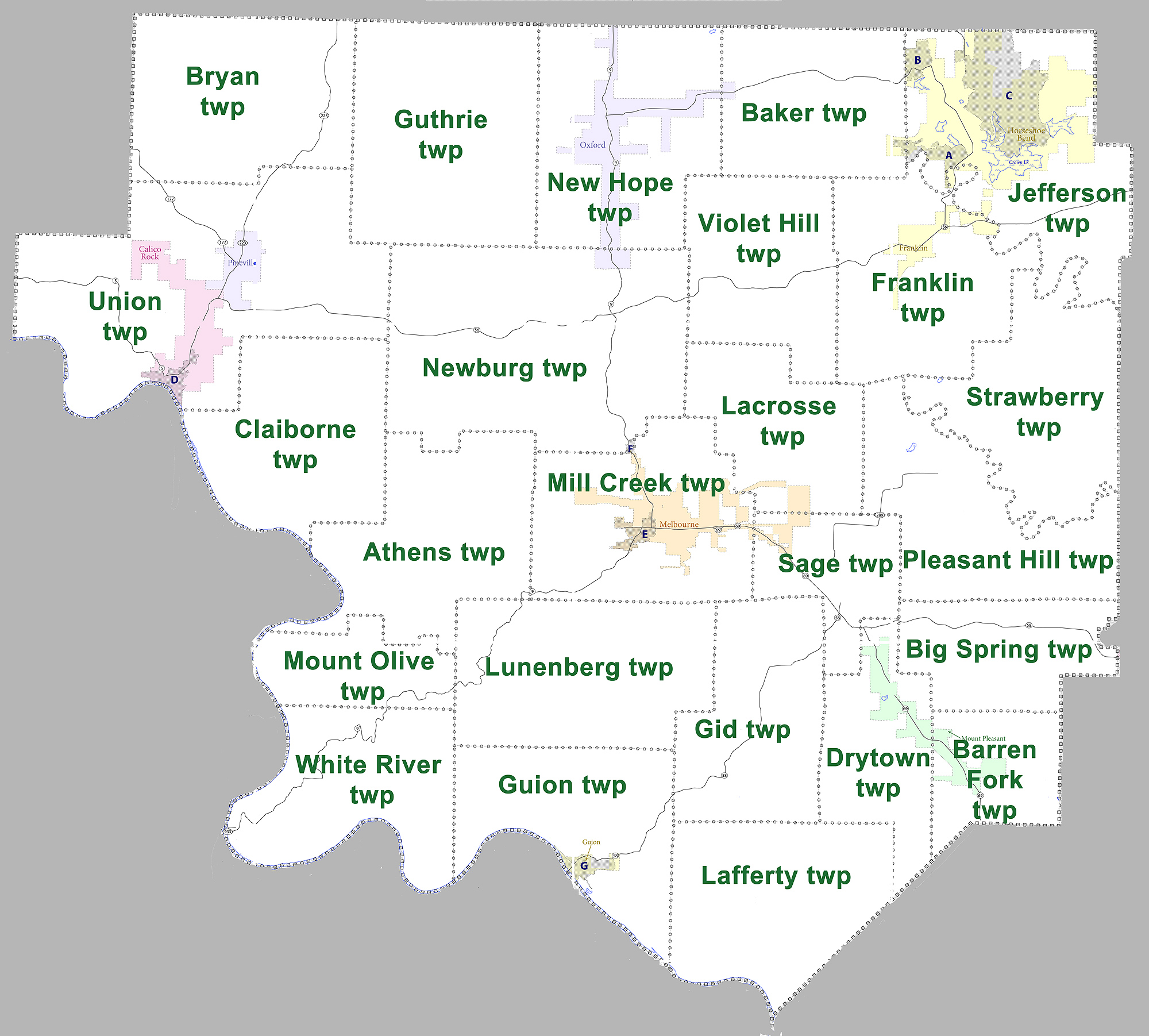 Large map showing townships in Izard County, Arkansas. Modified from US census map (for 2010 census) for Izard County, Arkansas